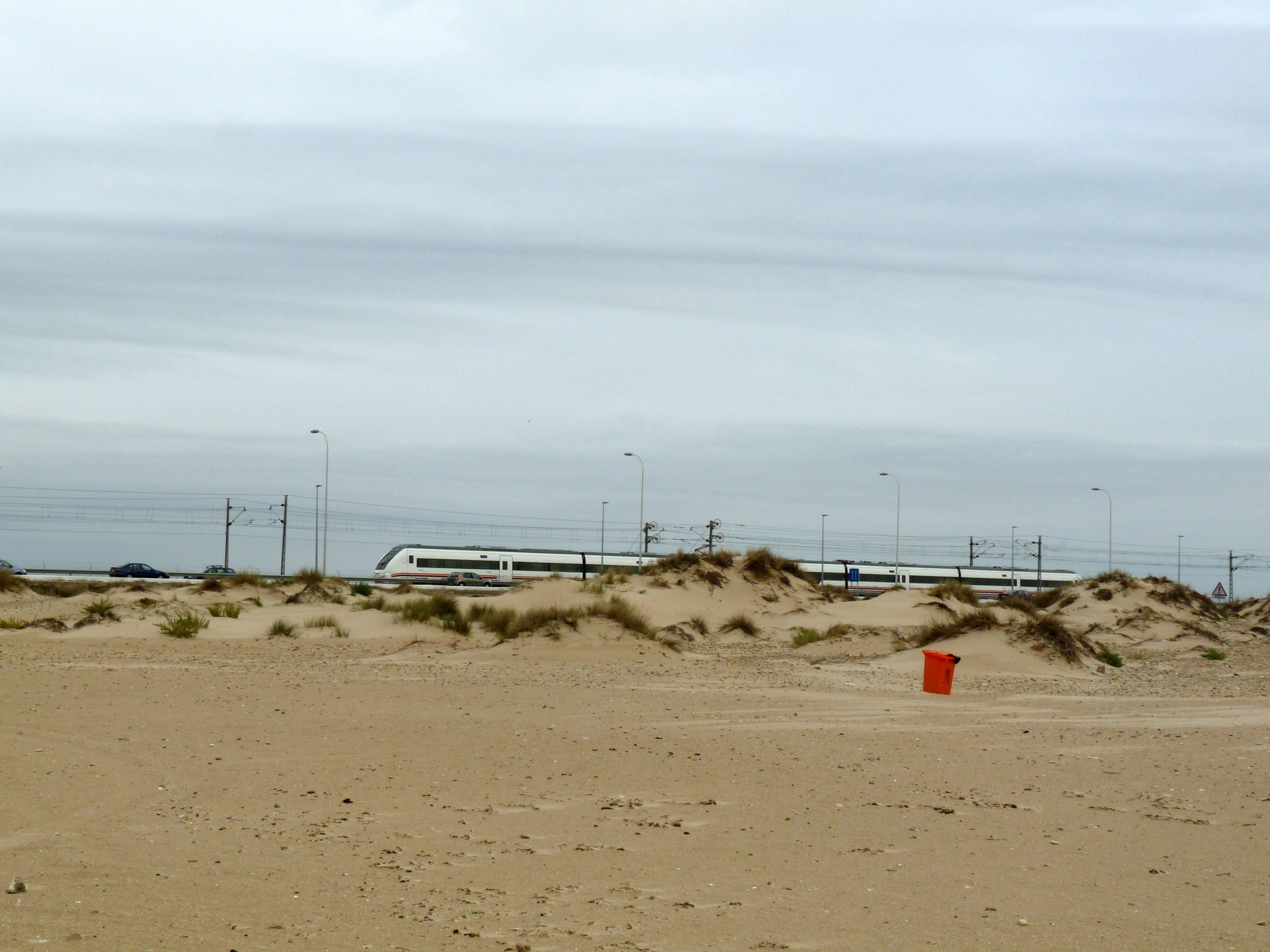 Dunes between Cádiz and San Fernado